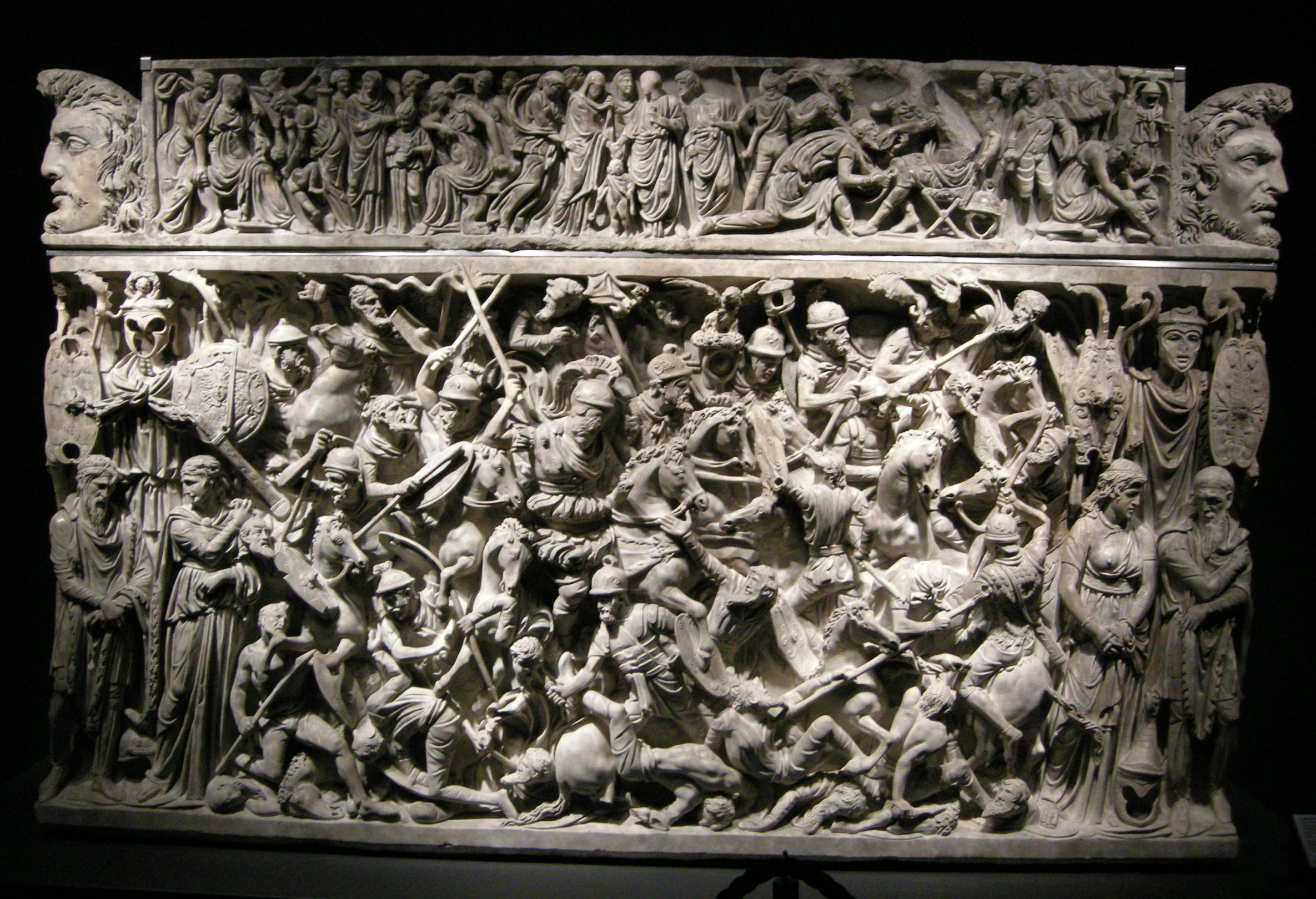 read filename